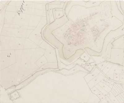 Topografic map of Bredevoort, with below on the lefside the redoute Orange